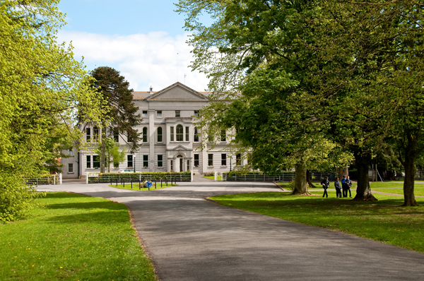 Photo of Knockbeg College